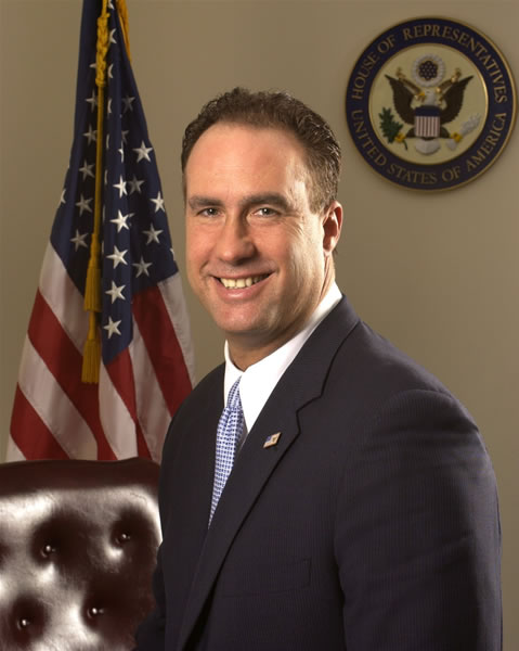 Former Member Of Congress John Sweeney